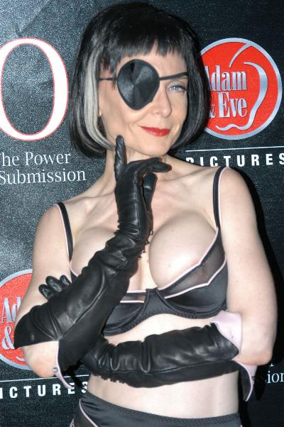 Nina Hartley at Adam & Eve party for movie O: The Power of Submission, September 14 2006